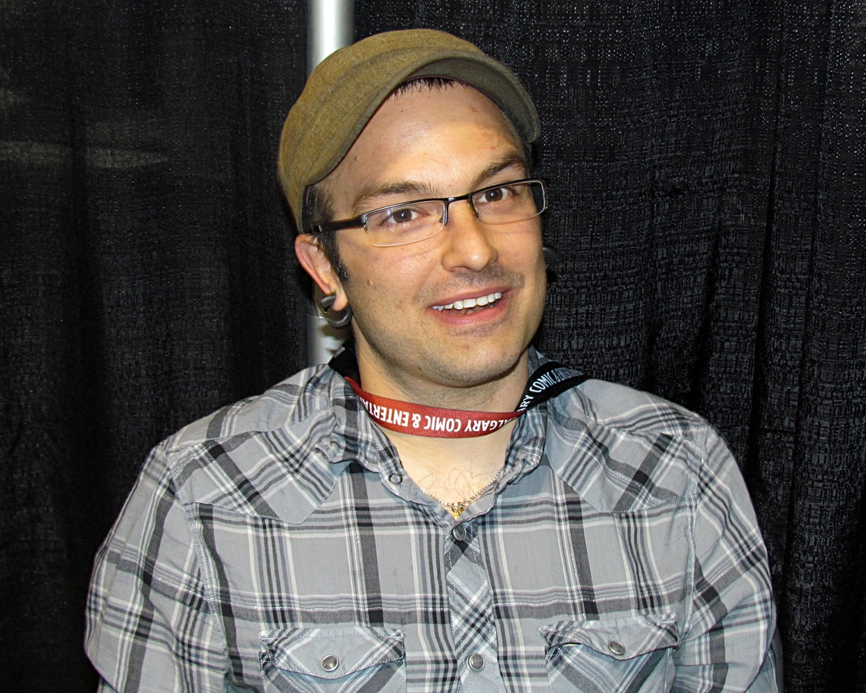 Riley Rossmo is a Canadian comic book artist and illustrator from Saskatoon, Saskatchewan. He is known for his work on Image Comics titles. Source: Wikipedia Photo taken at the Calgary Comic and Entertainment Expo, BMO Centre, Calgary, Alberta, Canada.